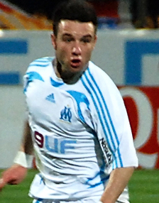 Mathieu Valbuena